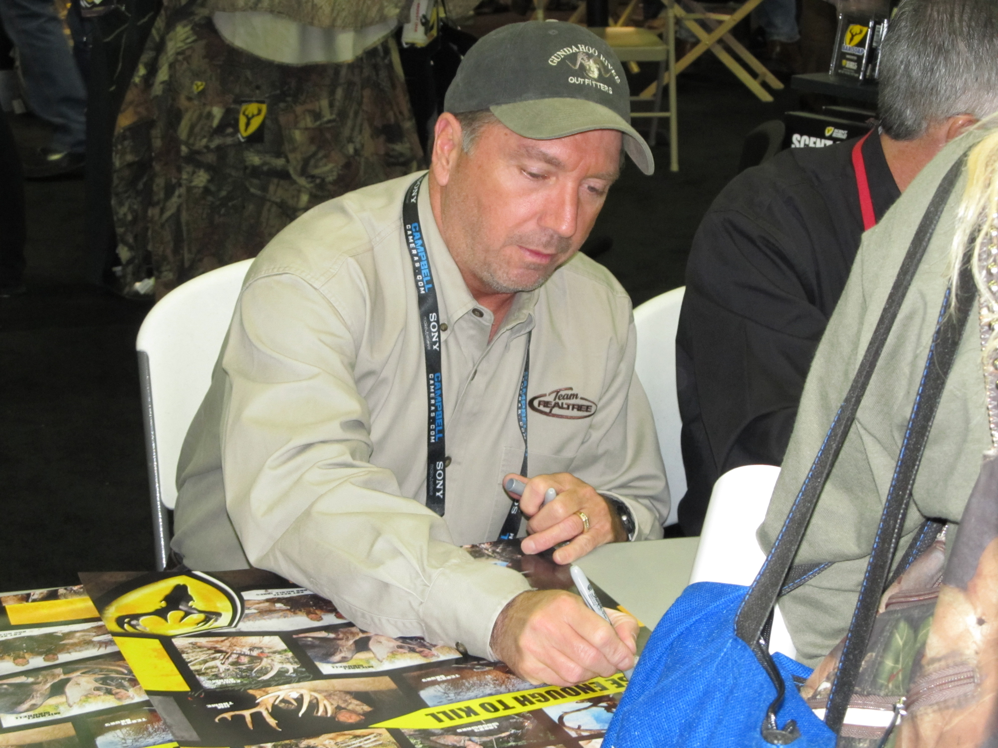 Tom Miranda signing autographs at the 2011 Archery Trade Show in Columbus, Ohio